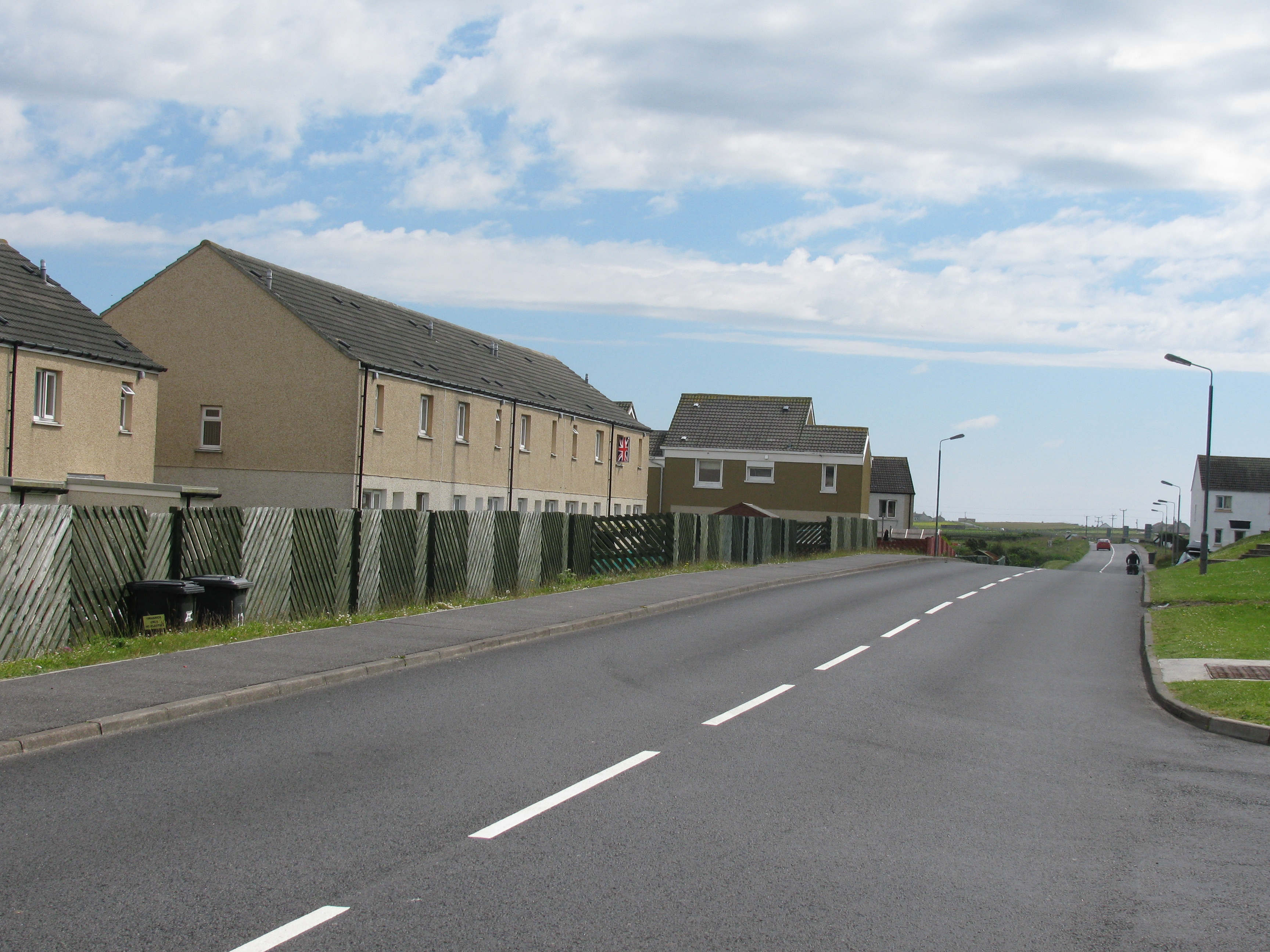 Main Street of Balivanich on Benbecula